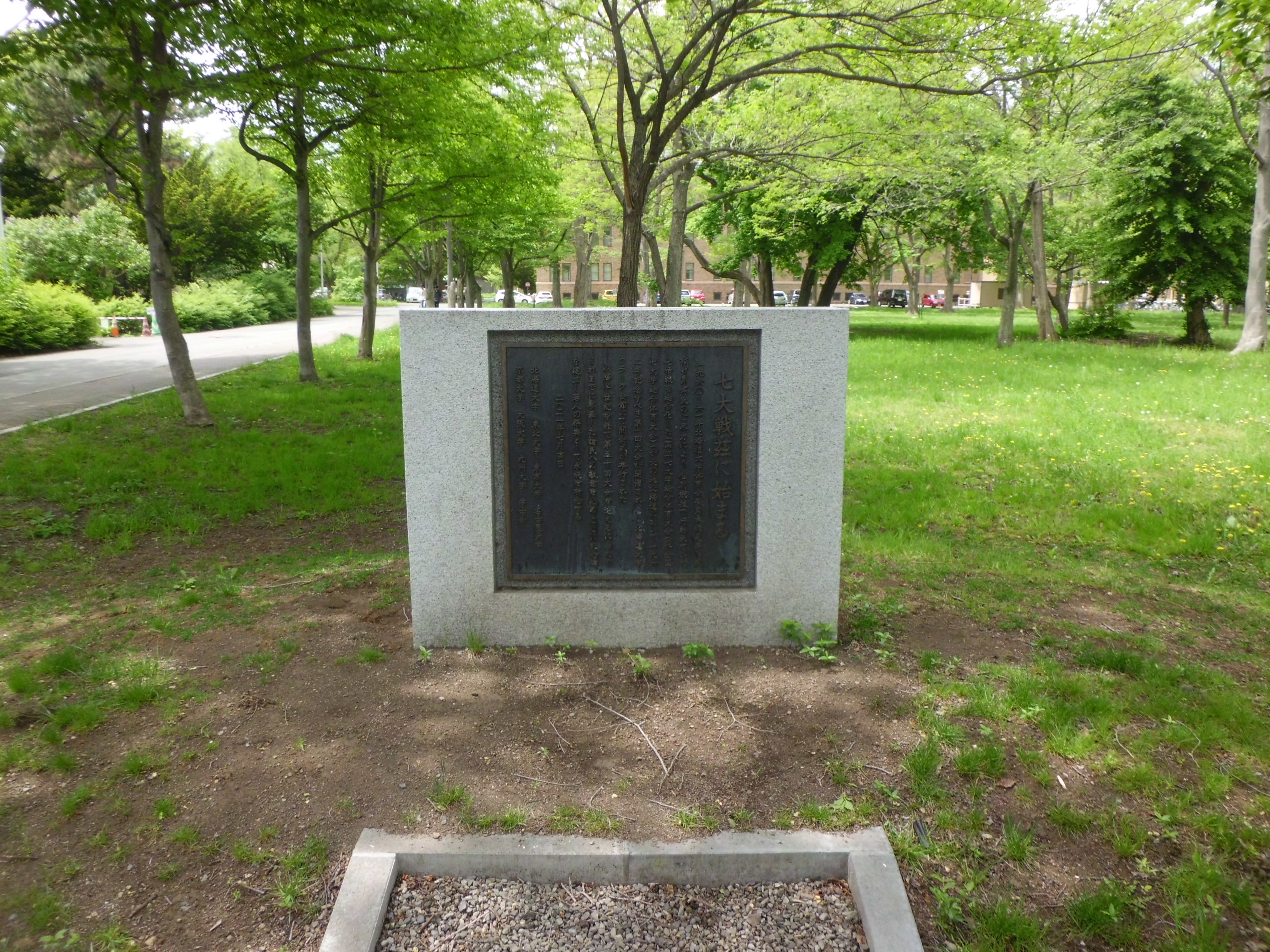 Monument to Seven Universities Athletic Meet